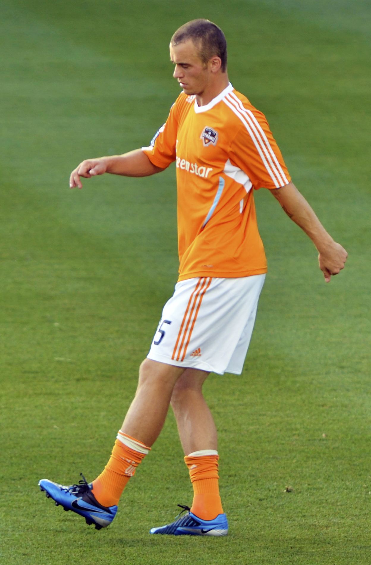 Cam Weaver of the Houston Dynamo's is warming up for a game against the Sporting KC in Livestrong Sporting Park, Kansas City, Kansas on July 7th, 2012.